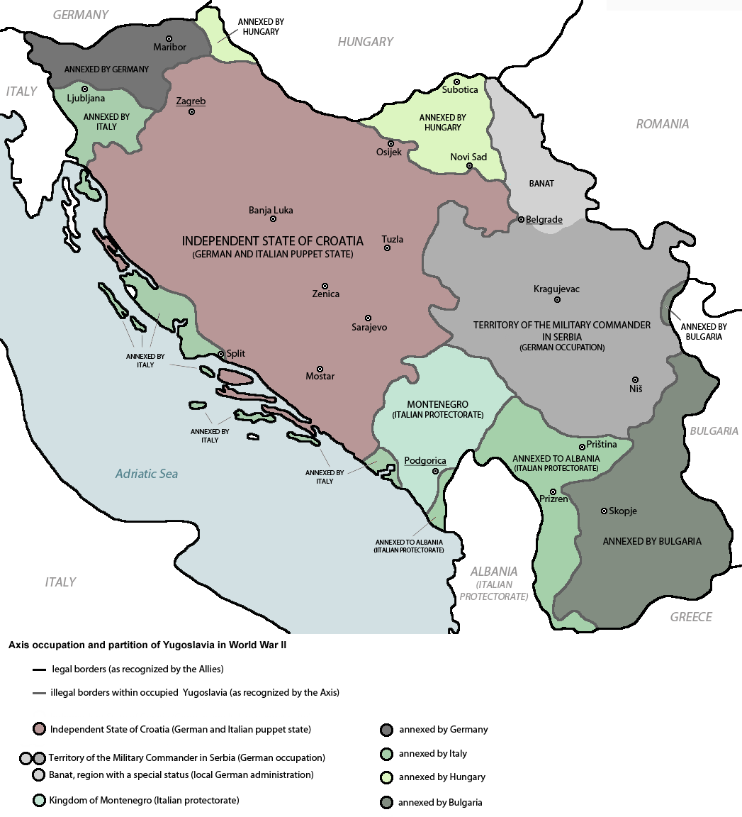 Axis occupation and partition of Yugoslavia in World War II. Srpskohrvatski / српскохрватски: Osovinska okupacija i podijela Jugoslavije u Drugom svijetskom ratu.